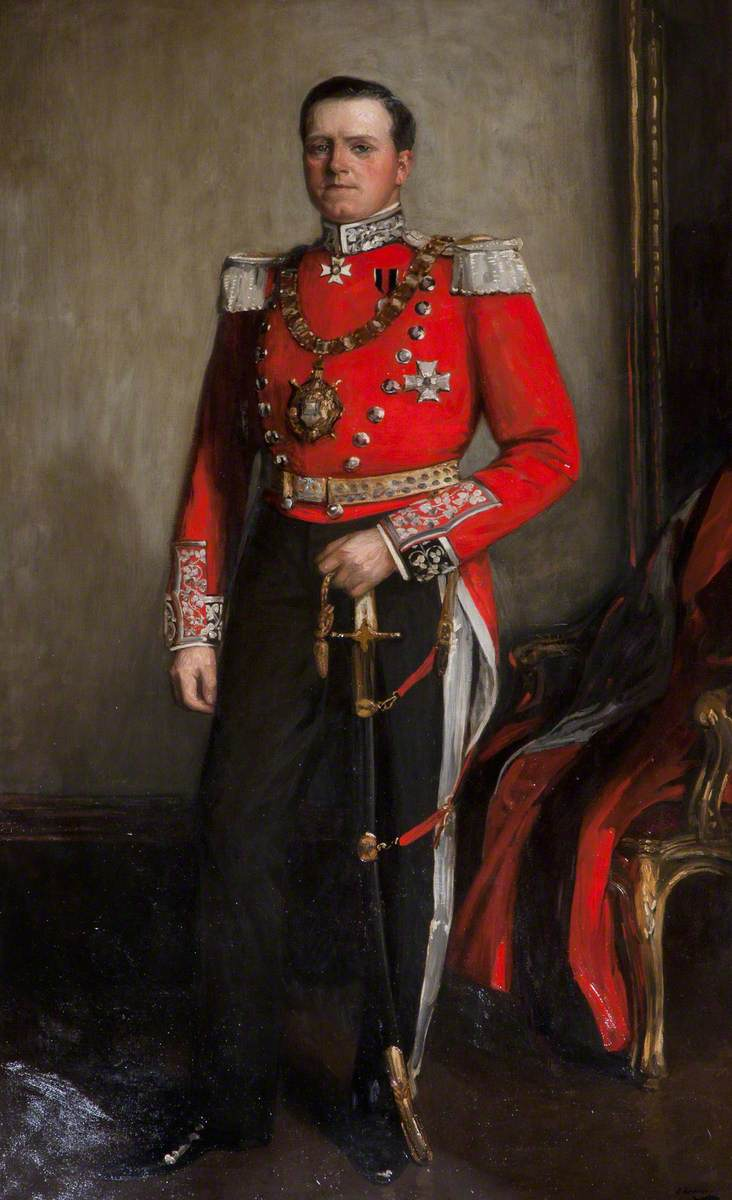 Portrait of the Earl of Shaftesbury as Lord Lieutenant of Belfast